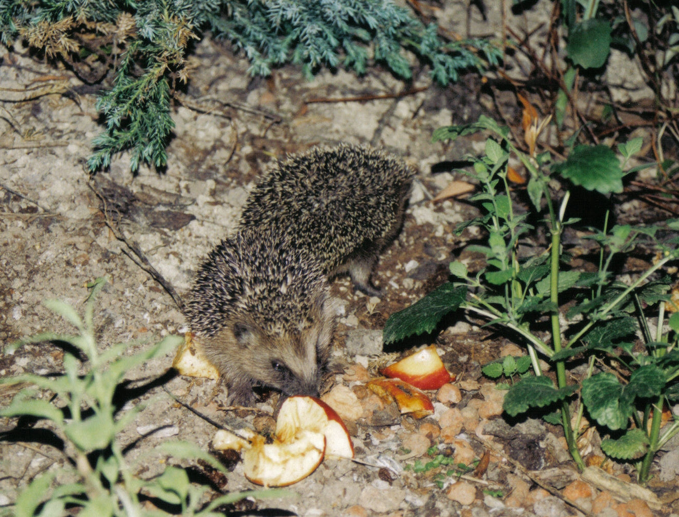 Hedgehog (Erinaceus europaeus), 55294 Bodenheim, Germany